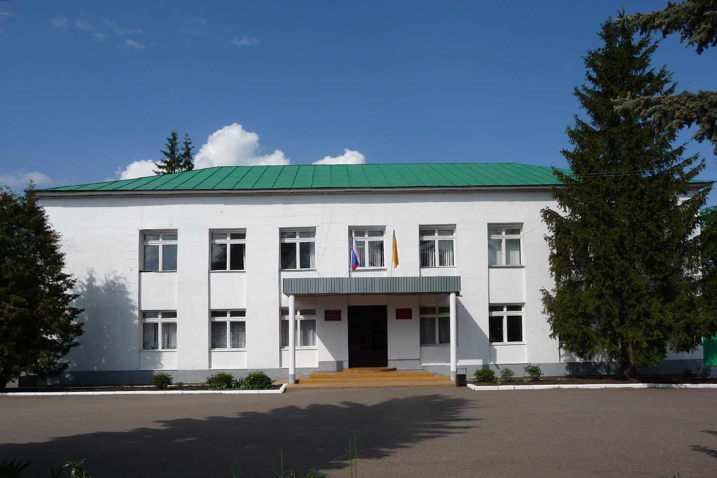 Spassky District Administration Building. The town of Spassk, Penza oblast, Russia. Rumantsch: Здание Администрации Спасского района Пензенской области.